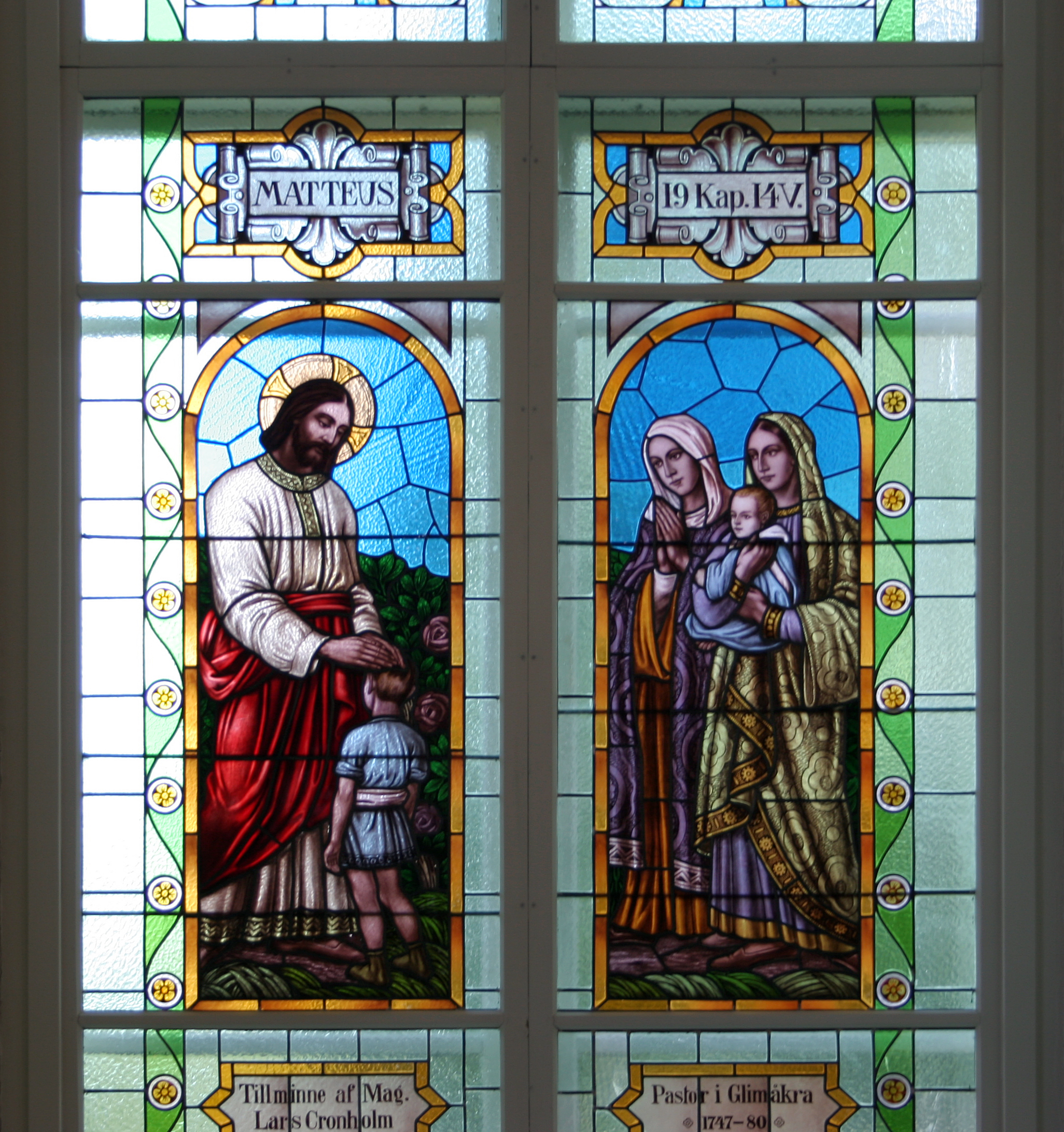 Stained glass window from 1919 by Anders Nilsson in Glimåkra kyrka in Scania, Sweden.